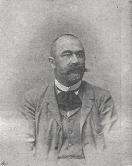 Rezső Laszberg